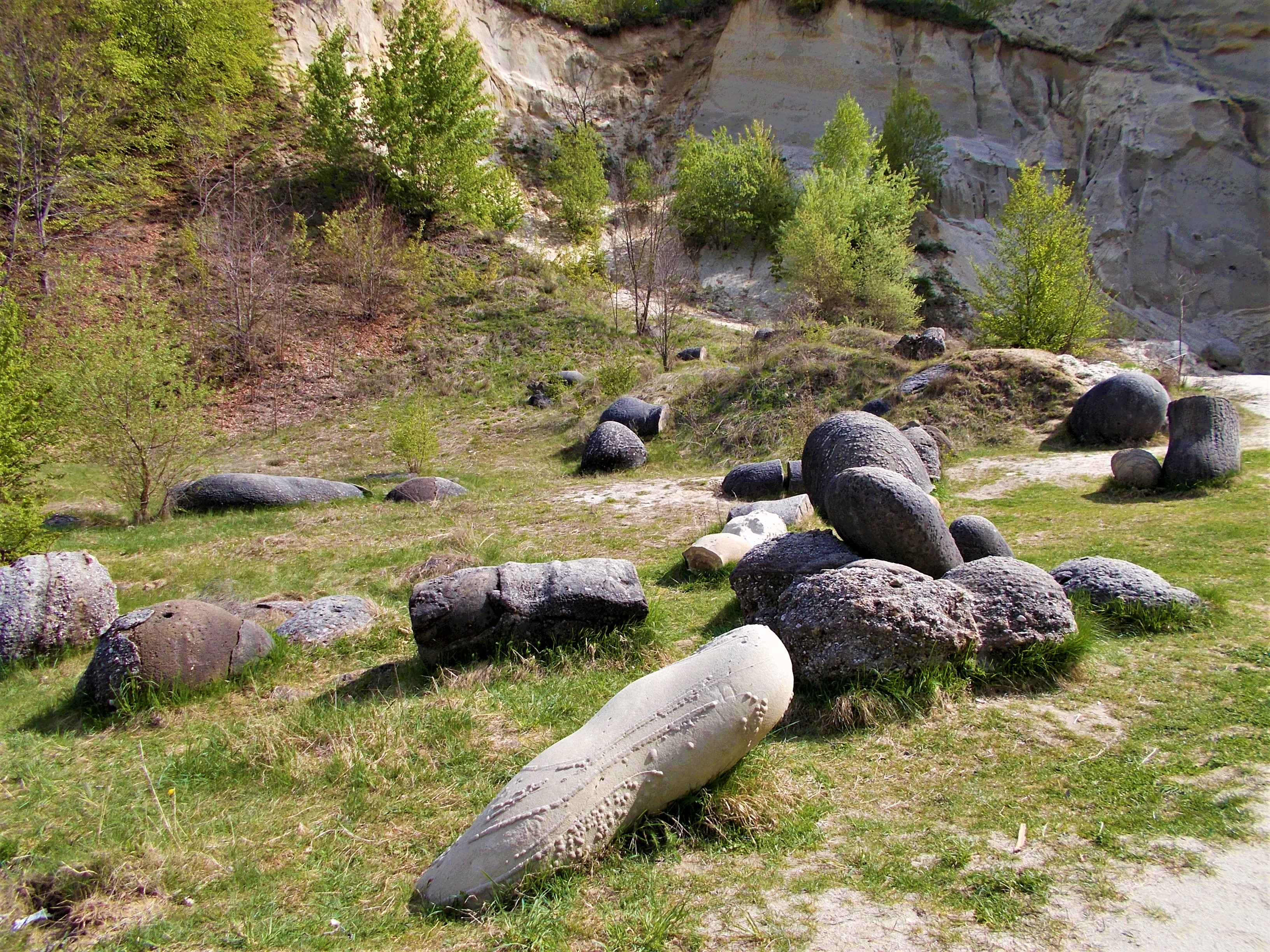 Muzeul Trovanților - Protected area in Vâlcea County, Romania